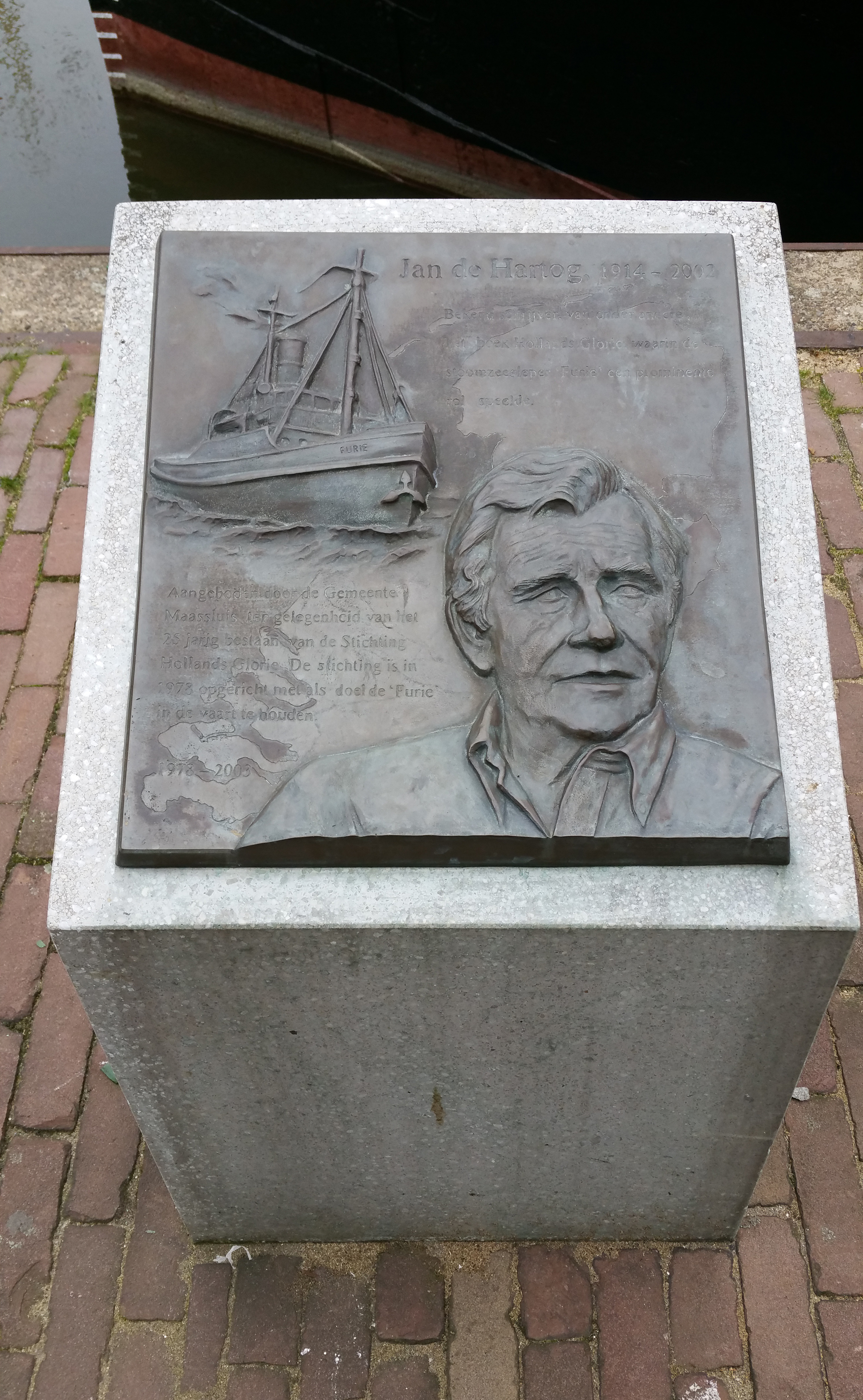 Plaquette of the writer Jan de Hartog en the tugboat Furie. (Maassluis 2004)